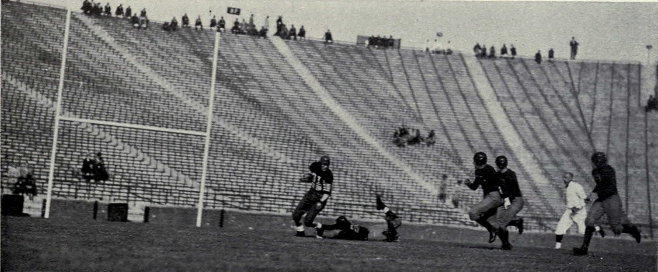 Photograph of Berry of Illinois returning kick in 1932 Michigan - Illinois football game This work is in the public domain because it was published in the United States between 1923 and 1963 and although there may or may not have been a copyright notice, the copyright was not renewed. Unless its author has been dead for the required period, it is copyrighted in the countries or areas that do not apply the rule of the shorter term for US works, such as Canada (50 pma), Mainland China (50 pma, not Hong Kong or Macao), Germany (70 pma), Mexico (100 pma), Switzerland (70 pma), and other countries with individual treaties. See Commons:Hirtle chart for further explanation. This work is in the public domain in the United States because it was published in the United States between 1923 and 1977 without a copyright notice. See this page for further explanation. Note that it may still be copyrighted in jurisdictions that do not apply the rule of the shorter term for US works (depending on the date of the author's death), such as Canada (50 p.m.a.), Mainland China (50 p.m.a., not Hong Kong or Macao), Germany (70 p.m.a.), Mexico (100 p.m.a.), Switzerland (70 p.m.a.), and other countries with individual treaties.